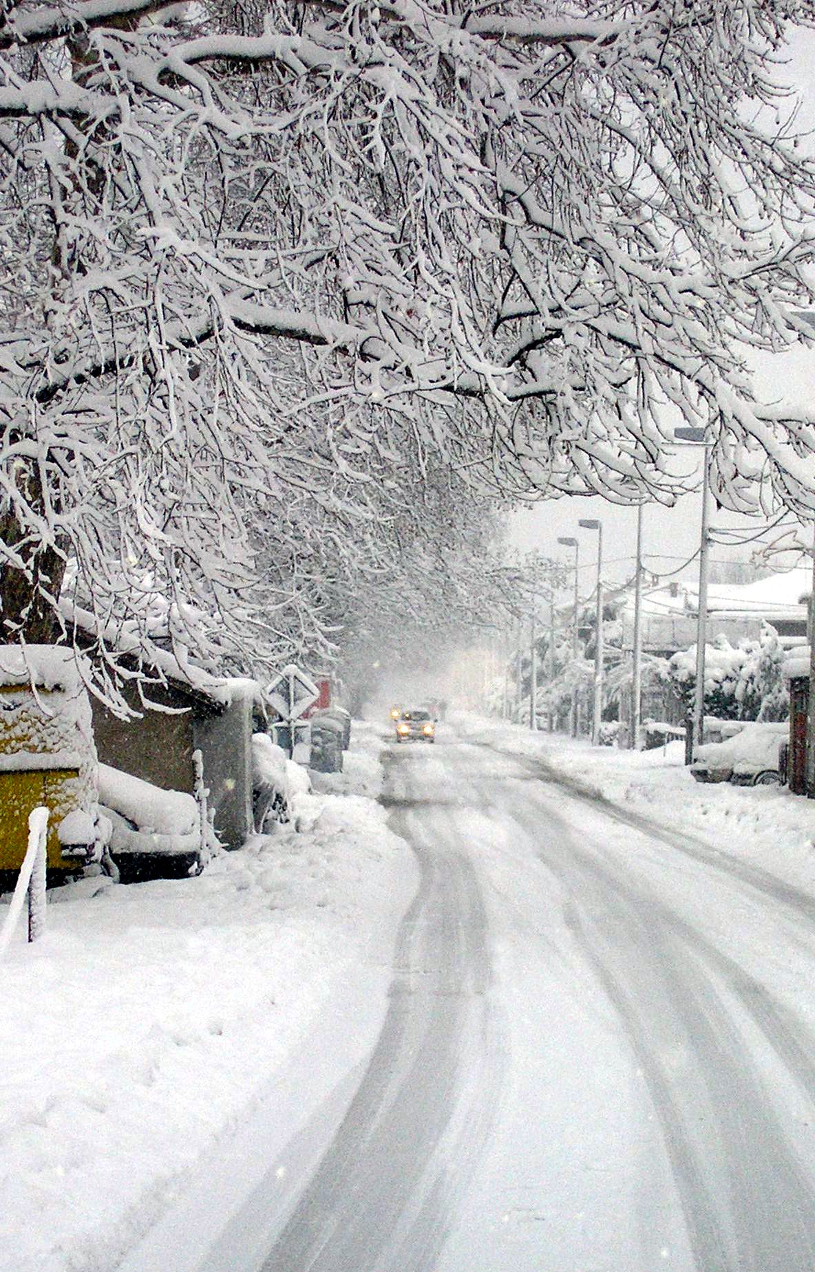 Snow in Metković, 2005